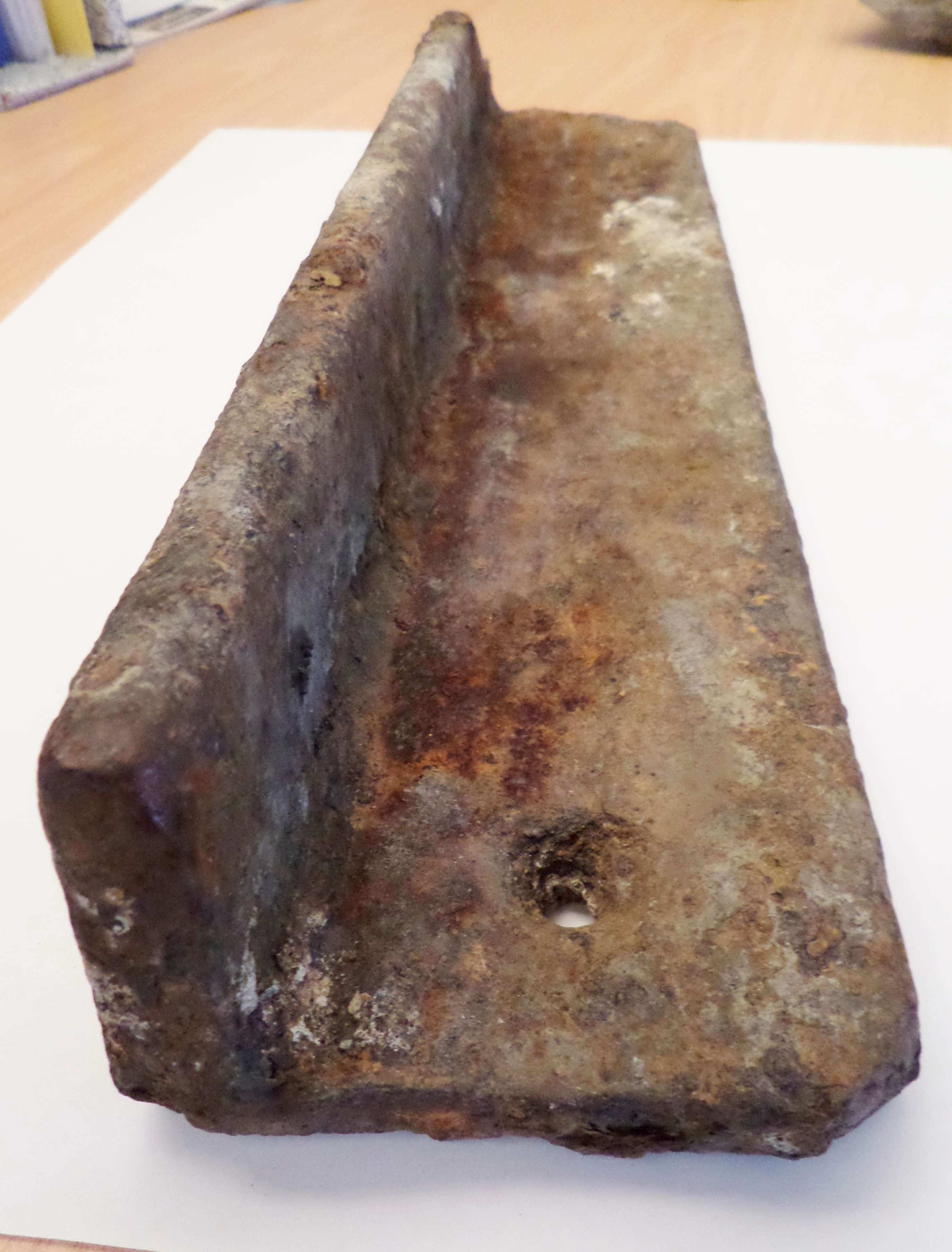 Plateway rail section, Stevenston Canal waggonway, Stevenston, North Ayrshire, Scotland. Found in old mine waste.